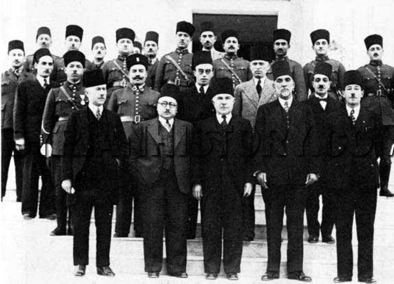 Politicians from French Mandate of Syria's National Bloc movement assembled in front of Syria's government headquarters in Marjeh Square, Damascus. First row (from left to right): Tawfiq al-Shishakli, Lutfi al-Haffar, Fares al-Khury, Nuri al-Ftayyeh, and Fakhri al-Barudi. Second row: Two military men, Nazim al-Qudsi and Jamil Ibrahim Pasha.